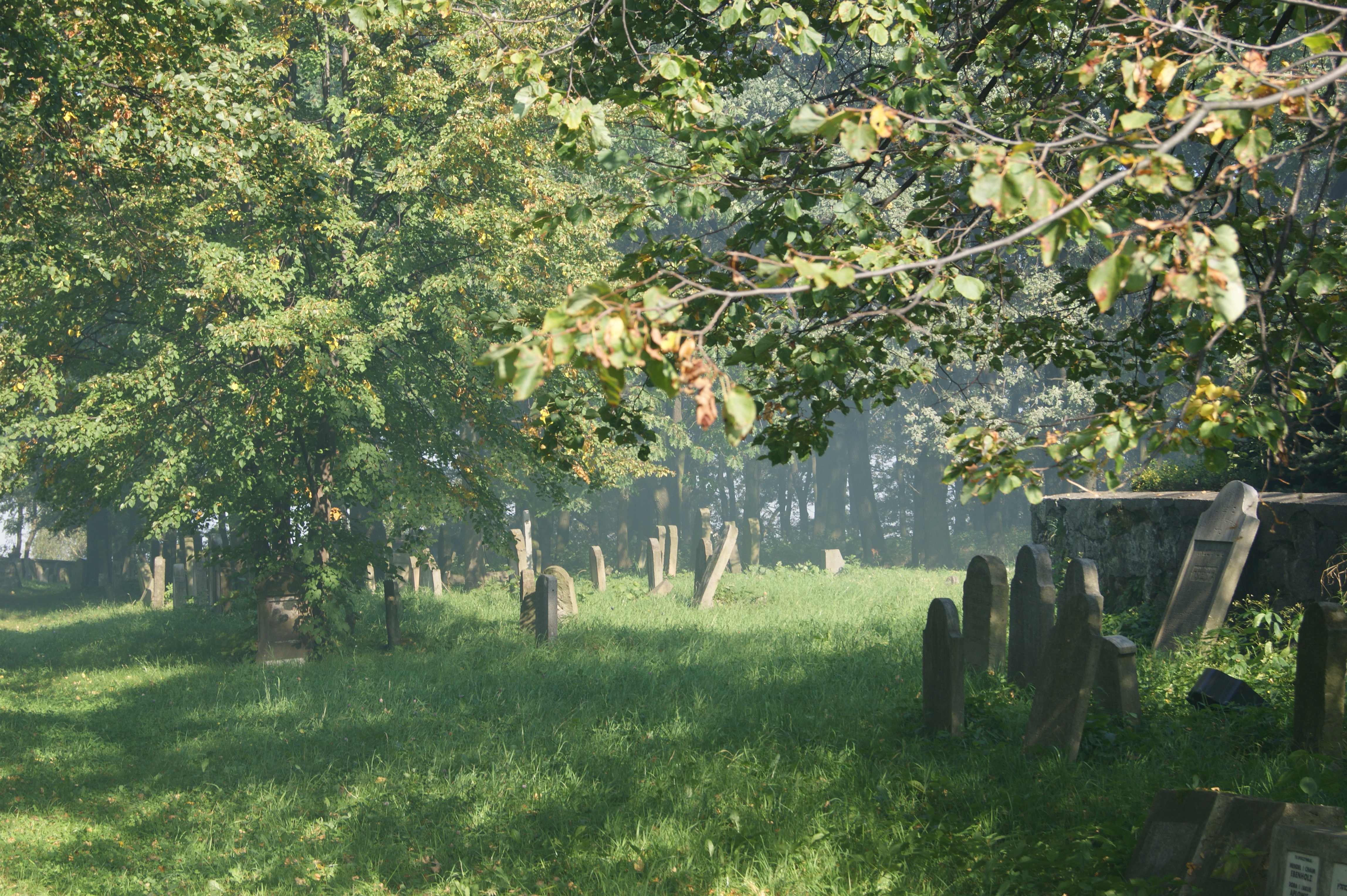 New Jewish cemetery2, Czarnowiejska street, Brzesko, Poland